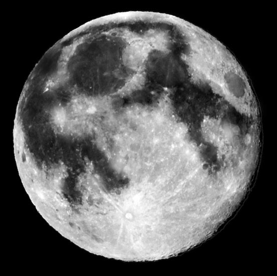 Hjuki and Bil carrying a bucket of water on a pole, from the Norse legend.